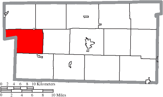 Map of the municipal and township boundaries of Holmes County, Ohio, United States, as of the 2000 census, with the location of Knox Township highlighted. Township borders are shown only in unincorporated areas in order to differentiate incorporated and unincorporated areas more clearly.